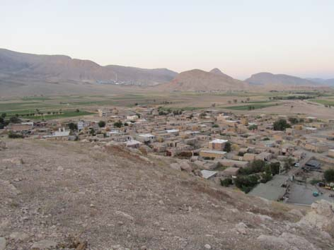 نمایی از بخش شمال غربی قزقلعه